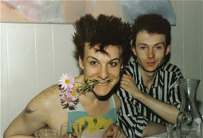 Subject: Nick Marsh of Flesh for Lulu Date: February, 1987 Place: San Francisco, California, USA Photographer: Andwhatsnext Original 35mm photograph scanned Credit: Copyright (c) 1987 by Nancy J Price